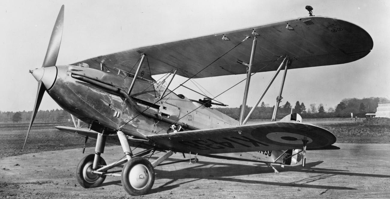 Hawker Audax prototype K1438 late 1931.